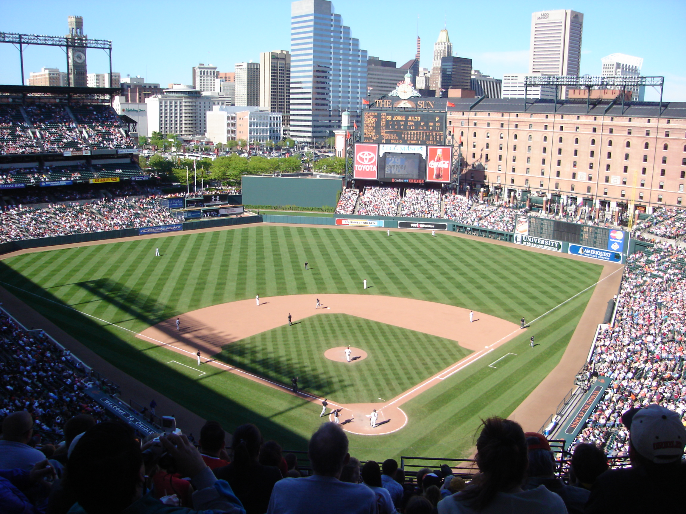 Baltimore Orioles in a May 8, 2005 photo against the Kansas City Royals. The Royals won 10-8